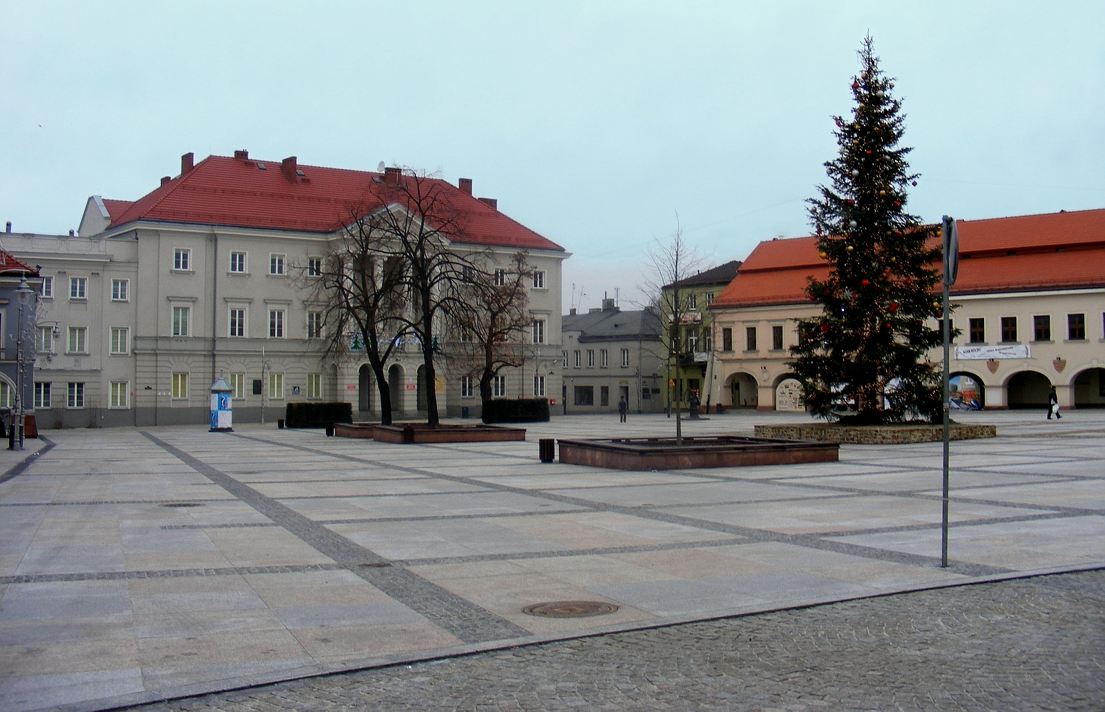 The Market Square in Kielce